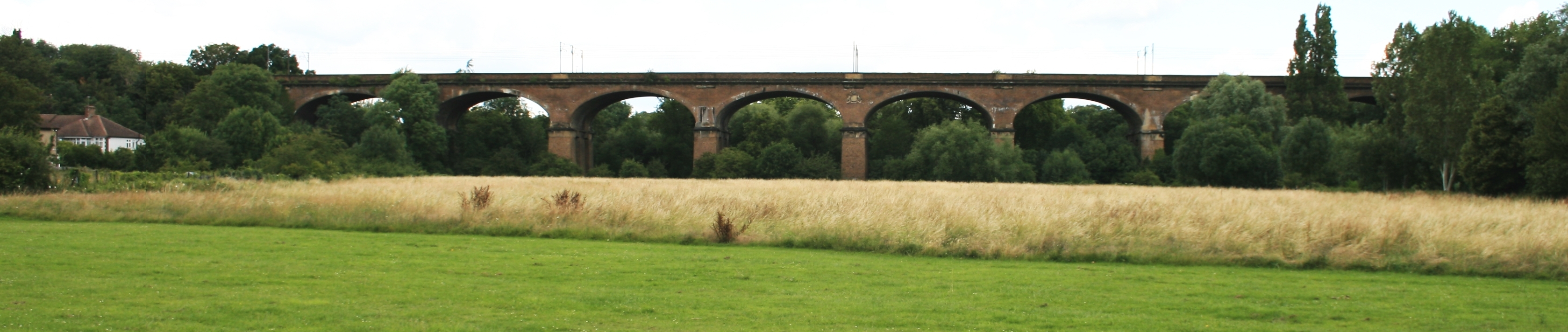 The Wharncliffe Viaduct in Hanwell, London W7. Design by Isambard Kingdom Brunel.